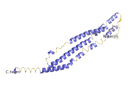 SMCO3 tertiary2